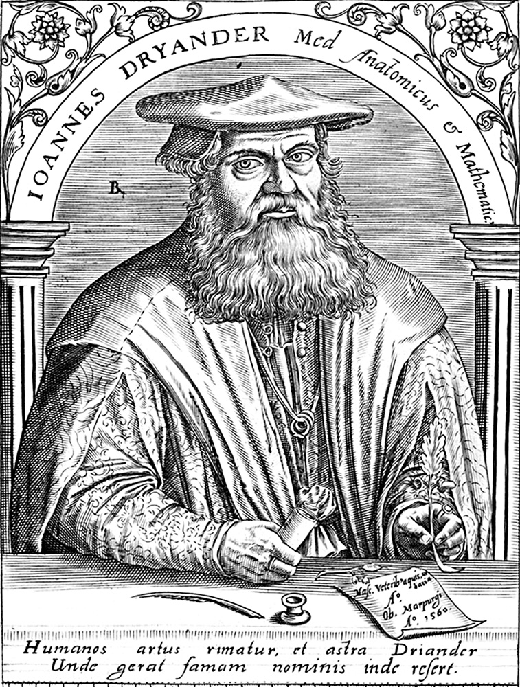 Portrait of John Dryander (Eichmann), rotated